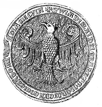 Seal of Wladislaus I of Poland after 1320